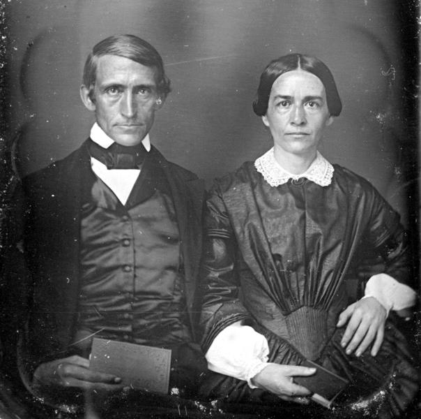 Daniel and Charlotte Dole, circa 1853.